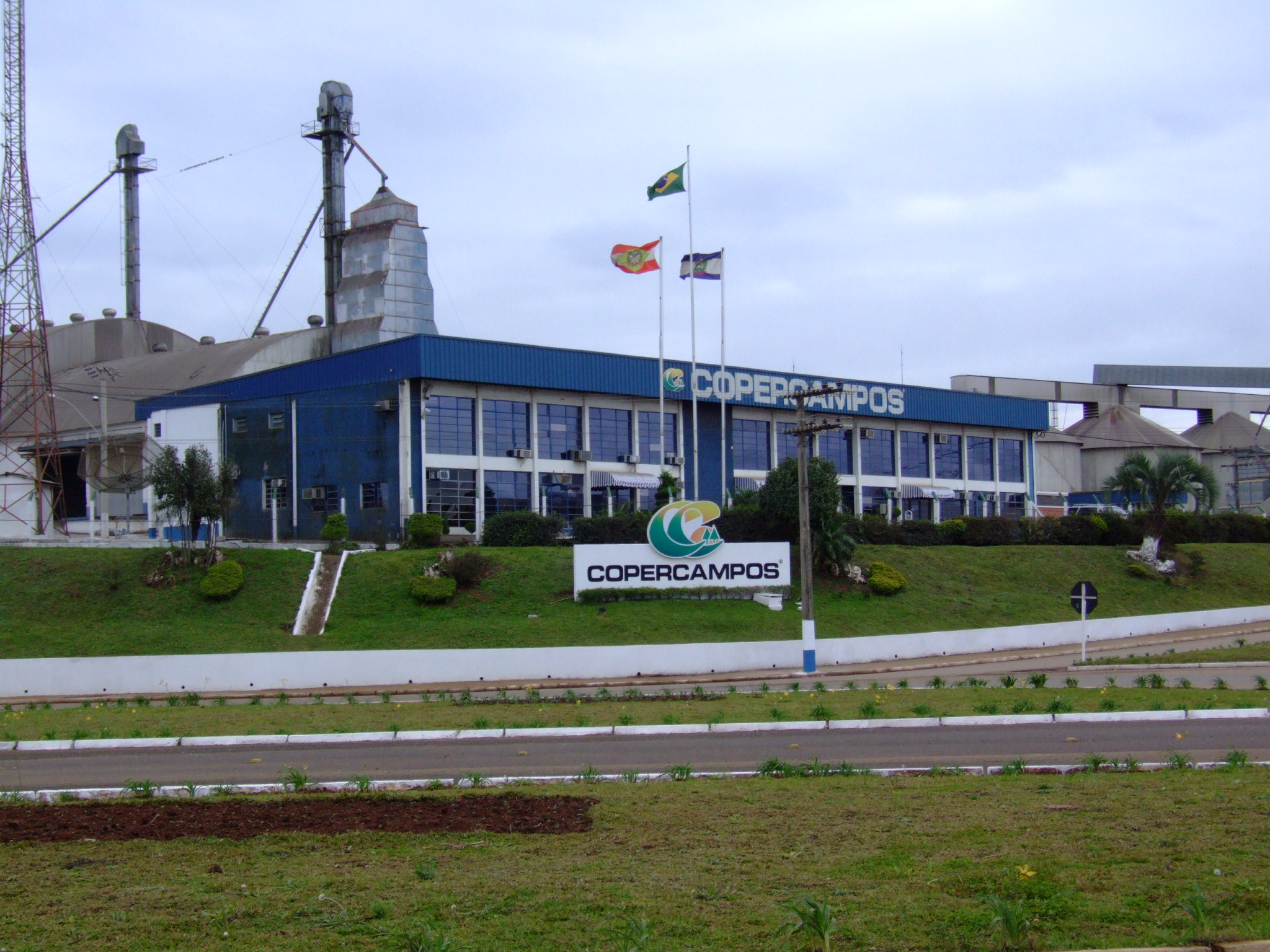 Coopercampos Headquarters in Campos Novos, Santa Catarina, Brazil